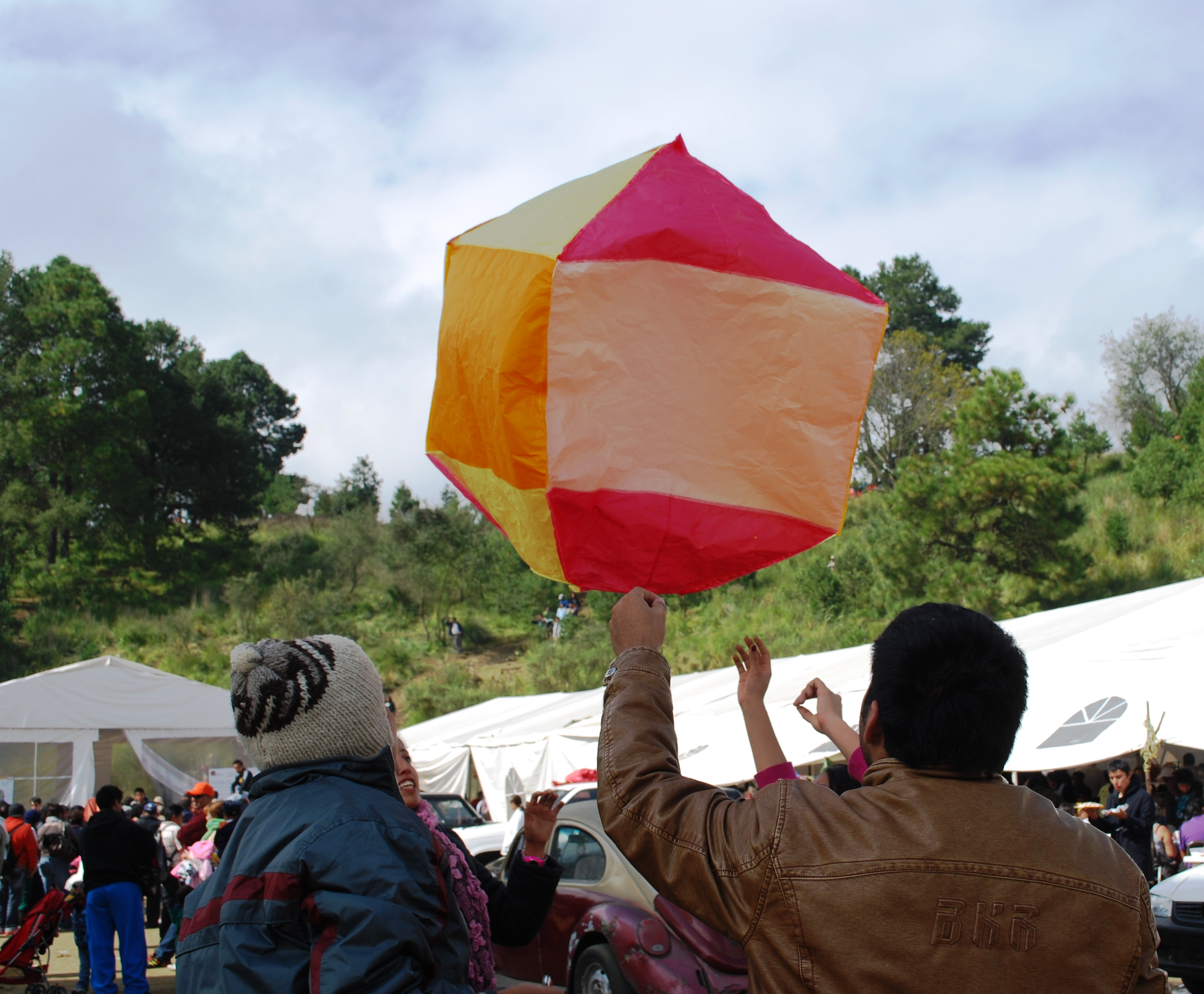 Launching sky lantern at the Globos de Cantolla event in Milpa Alta, Mexico City